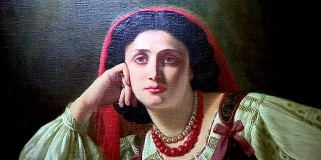 Herminie Collard, Portrait of a woman